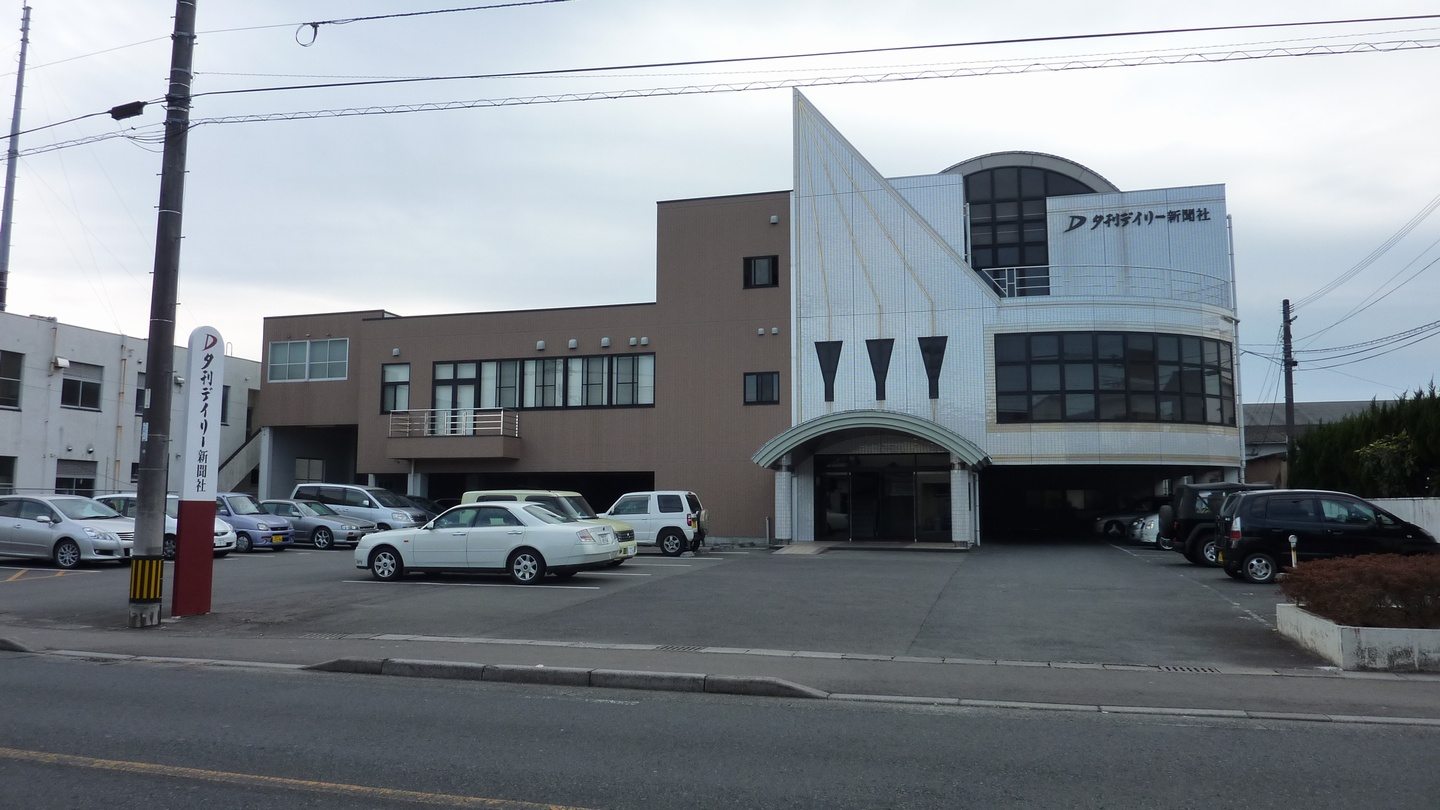 Yukan Daily (a Japanese Newspaper in Nobeoka City, Miyazaki Prefecture, Japan)